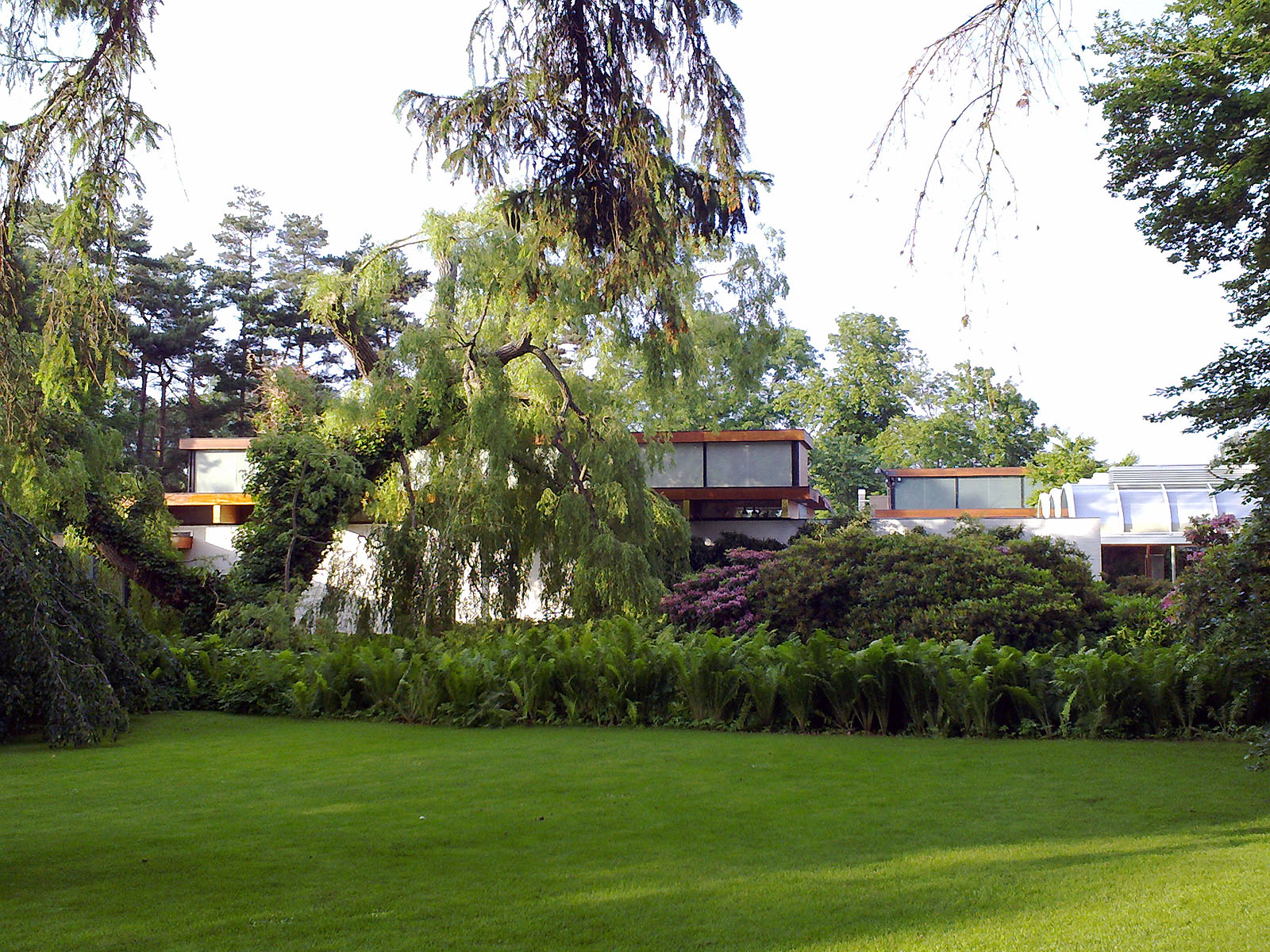 Louisiana Museum of Modern Art north of Copenhagen Denmark